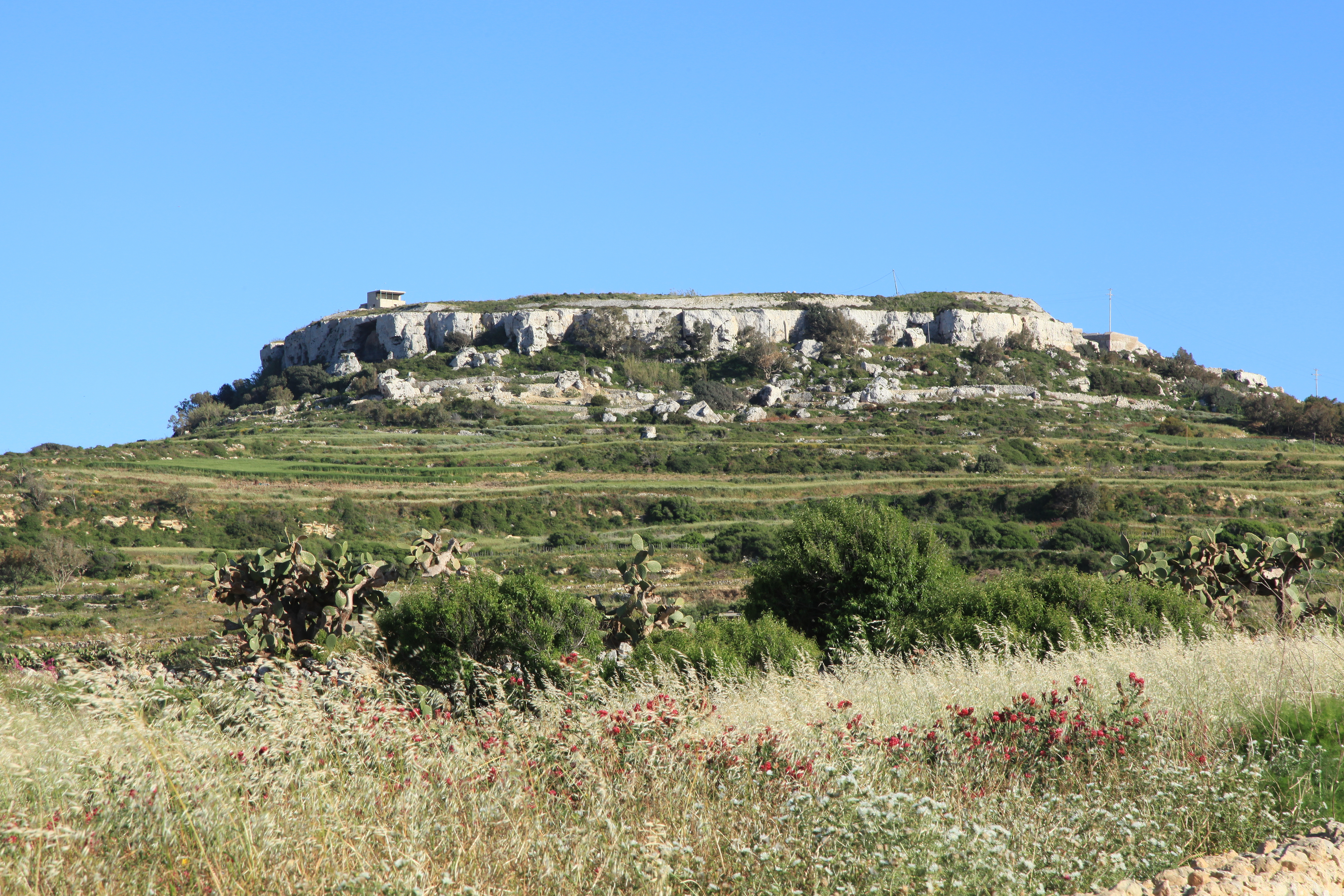 Agricultural lowlands in Mġarr and Fort Bingemma on top of the hill in Rabat (Malta)